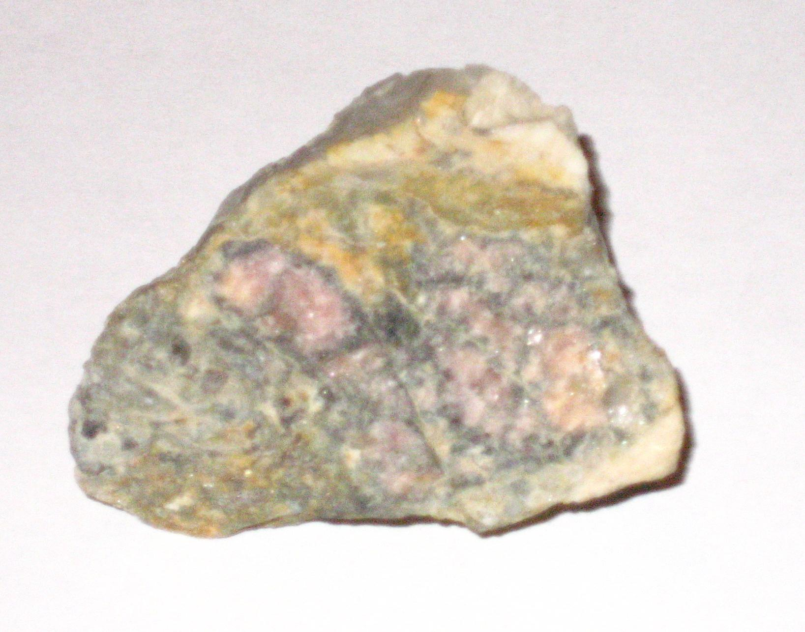 A picture of the rare vayrynenite mineral.